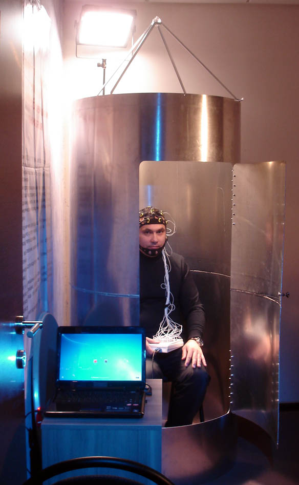 Kozyrev mirror